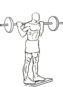 an exercise of calf